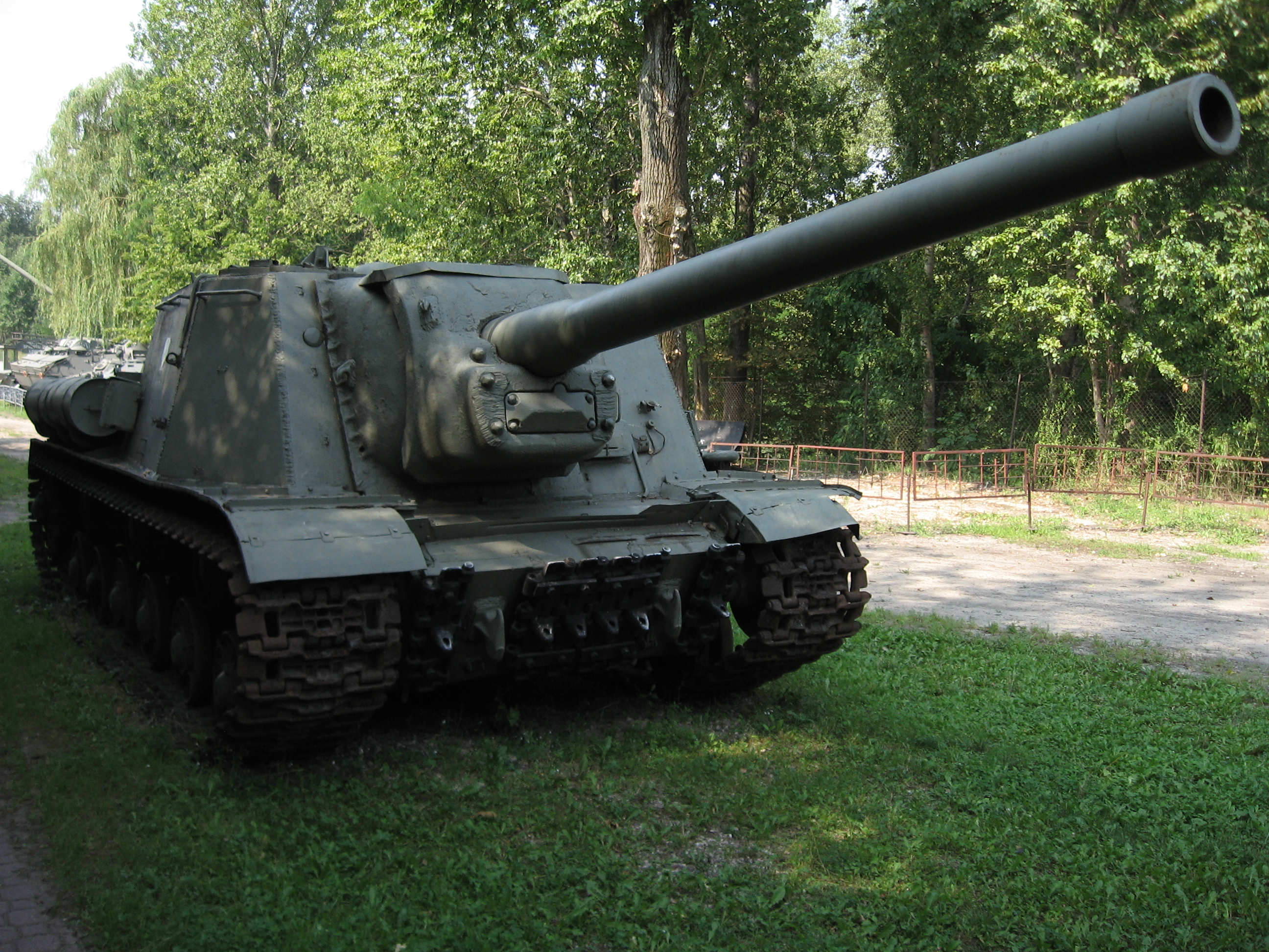 ISU-122 self-propelled gun at the Muzeum Polskiej Techniki Wojskowej in Warsaw.